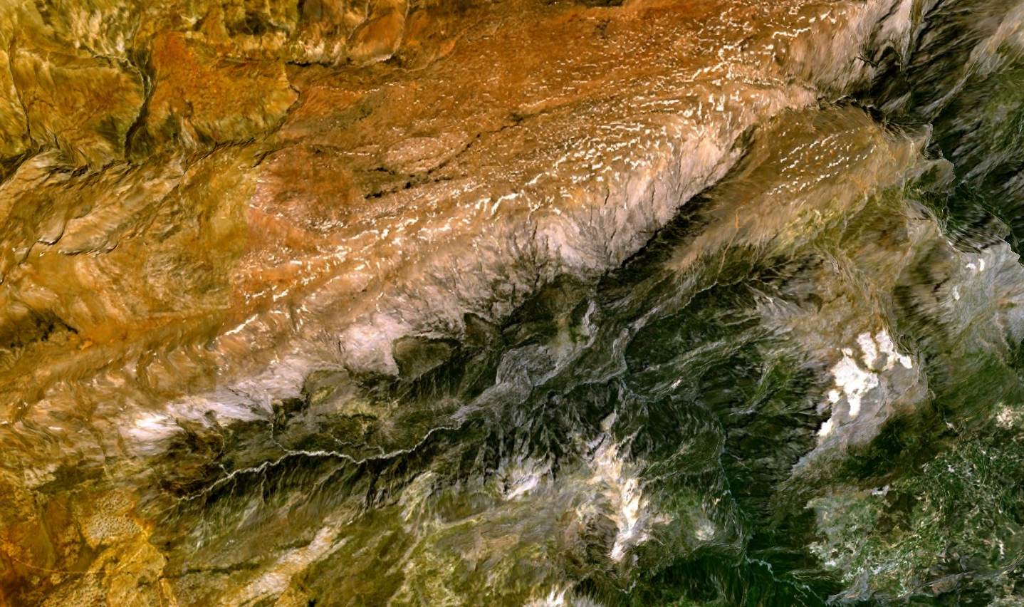 Satellite view of the Bolkar range in Turkey.